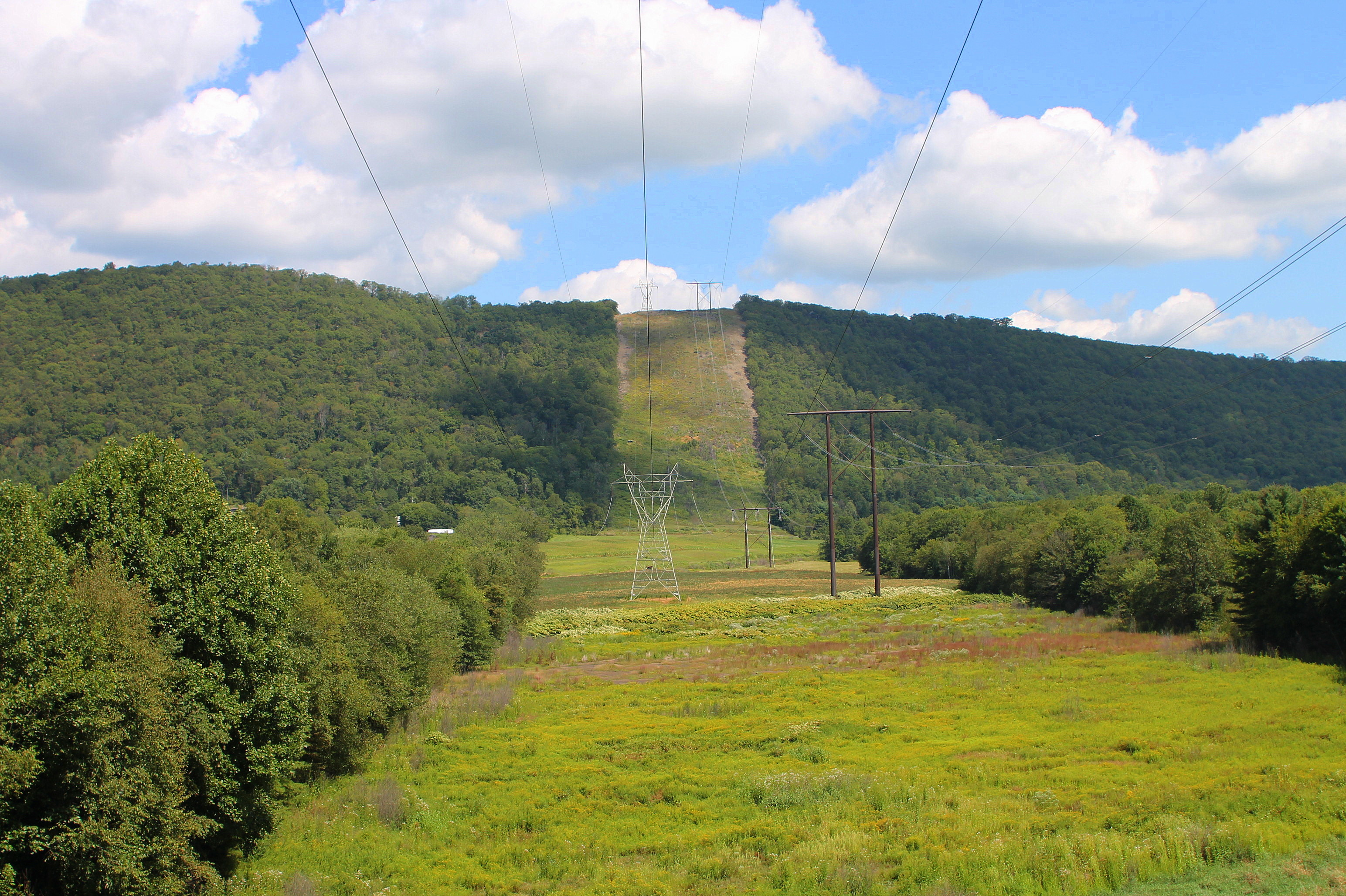 Power lines in Shamokin Township, Northumberland County, Pennsylvania